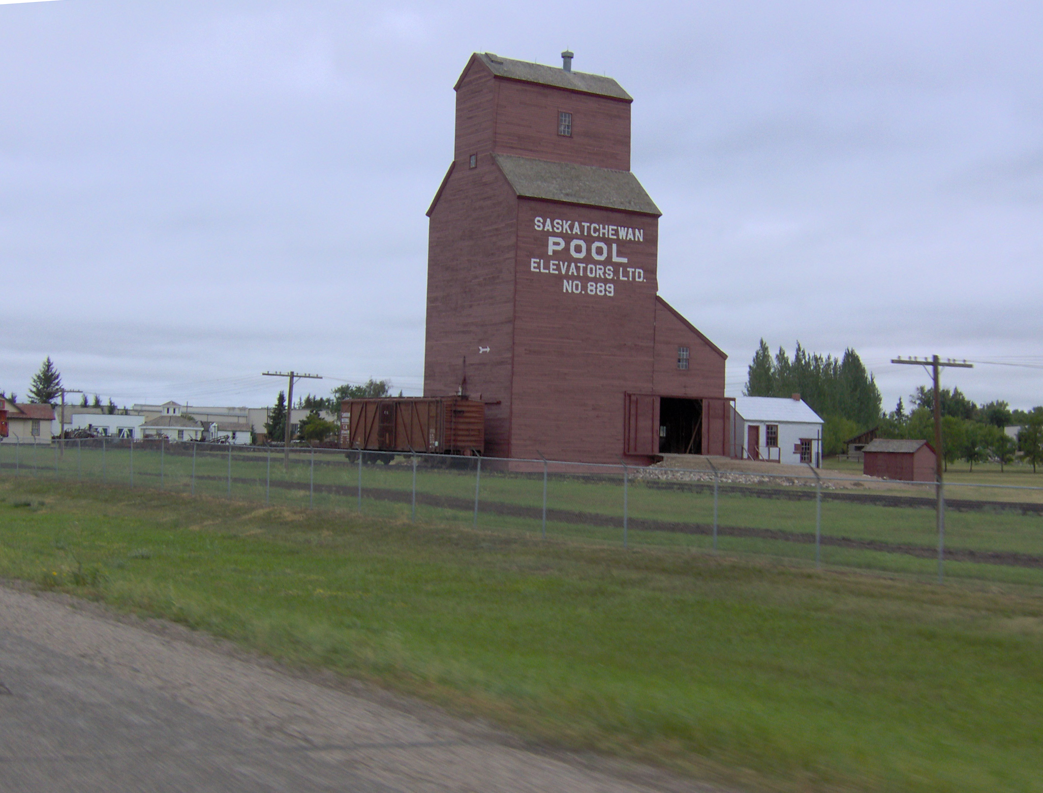 Grain elevator along Saskatchewan Highway 16, the Yellowhead